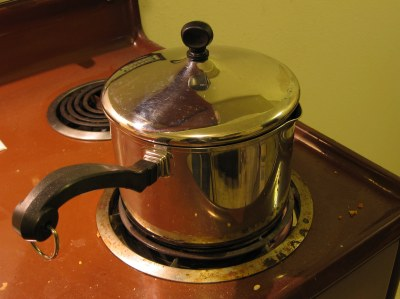 Pot on stove / Used as an icon in Template:User cook.